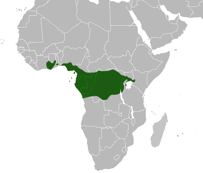 Range map of the Congo Grey Parrot, Psittacus erithacus.[1]